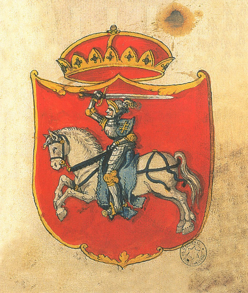 Lithuania's (GDL) coat of arms "Pohonia" from "Stemmata Polonica", XVI ct. One of the few CoA created in Lithuania with survived historical colors.